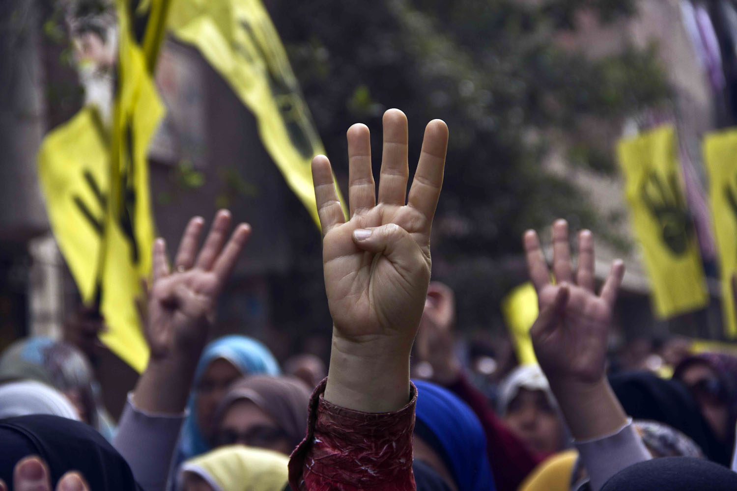 Original description: "Protesters raise their hands with the four finger sign representing Rabaa during a march in Maadi, Cairo, on the six month anniversary of the violent crackdown against supporters of ousted President Mohamed Morsi, Feb. 14, 2014. (Hamada Elrasam/VOA)"